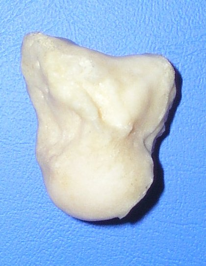 os capitatum, post. view (dorsal), l. sin (left hand)